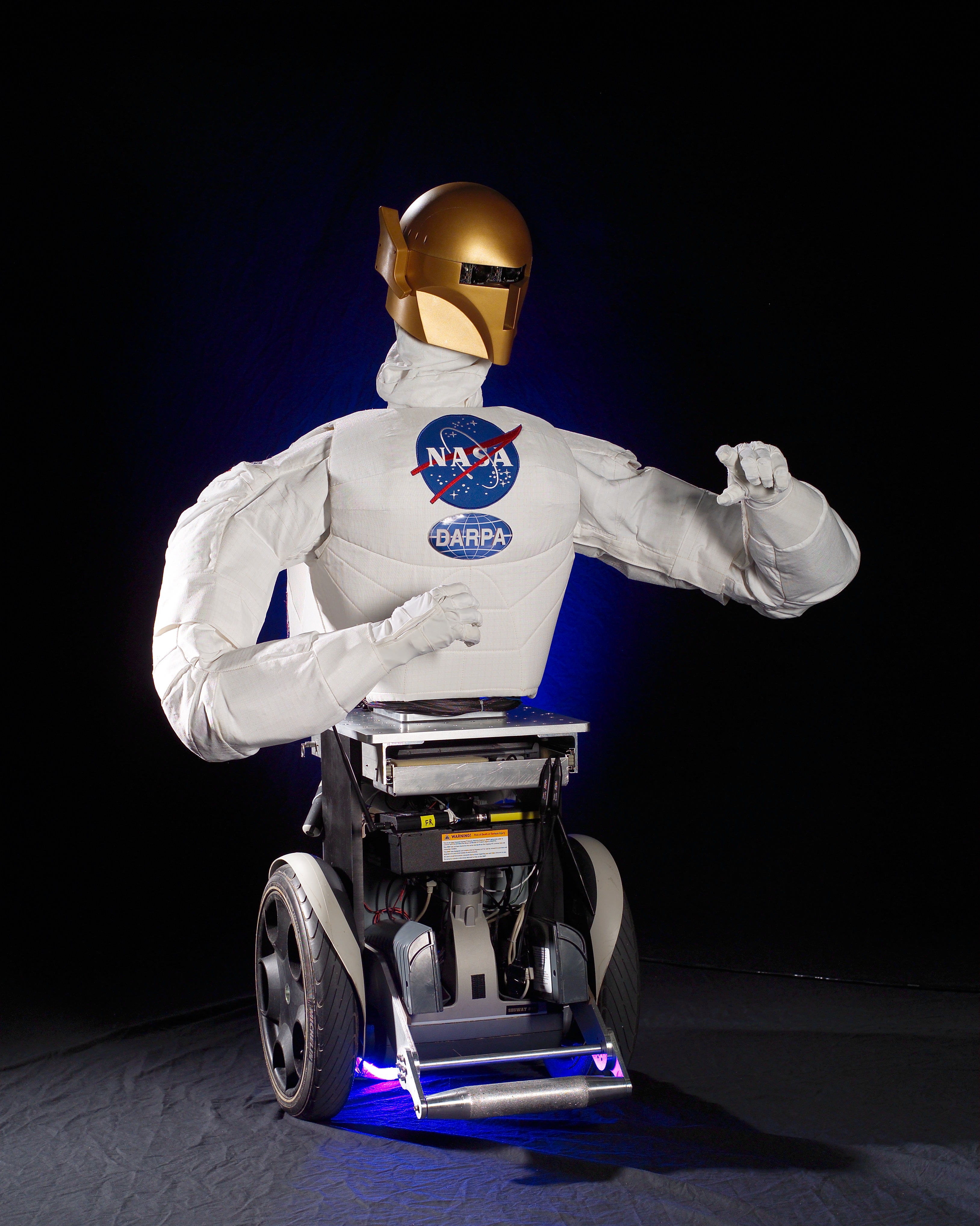 "This is Robonaut B, the newer of two NASA robots used in recent hand-in-hand testing at the Johnson Space Center with human beings to evaluate their shared ability to perform certain types of extravehicular activity. In late 2003 Robonaut Unit B was retrofitted with a mobile platform. This new base, called the Robonaut Mobility Platform (RMP), adds an entirely new capability to the functionality of Unit B."